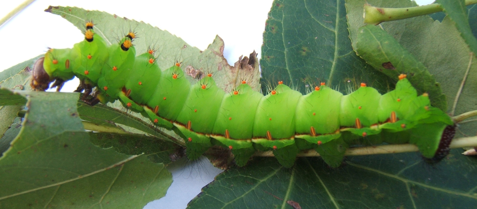 Actias selene 5th instar reared on American Sweetgum. Taken and raised by Shawn Hanrahan.